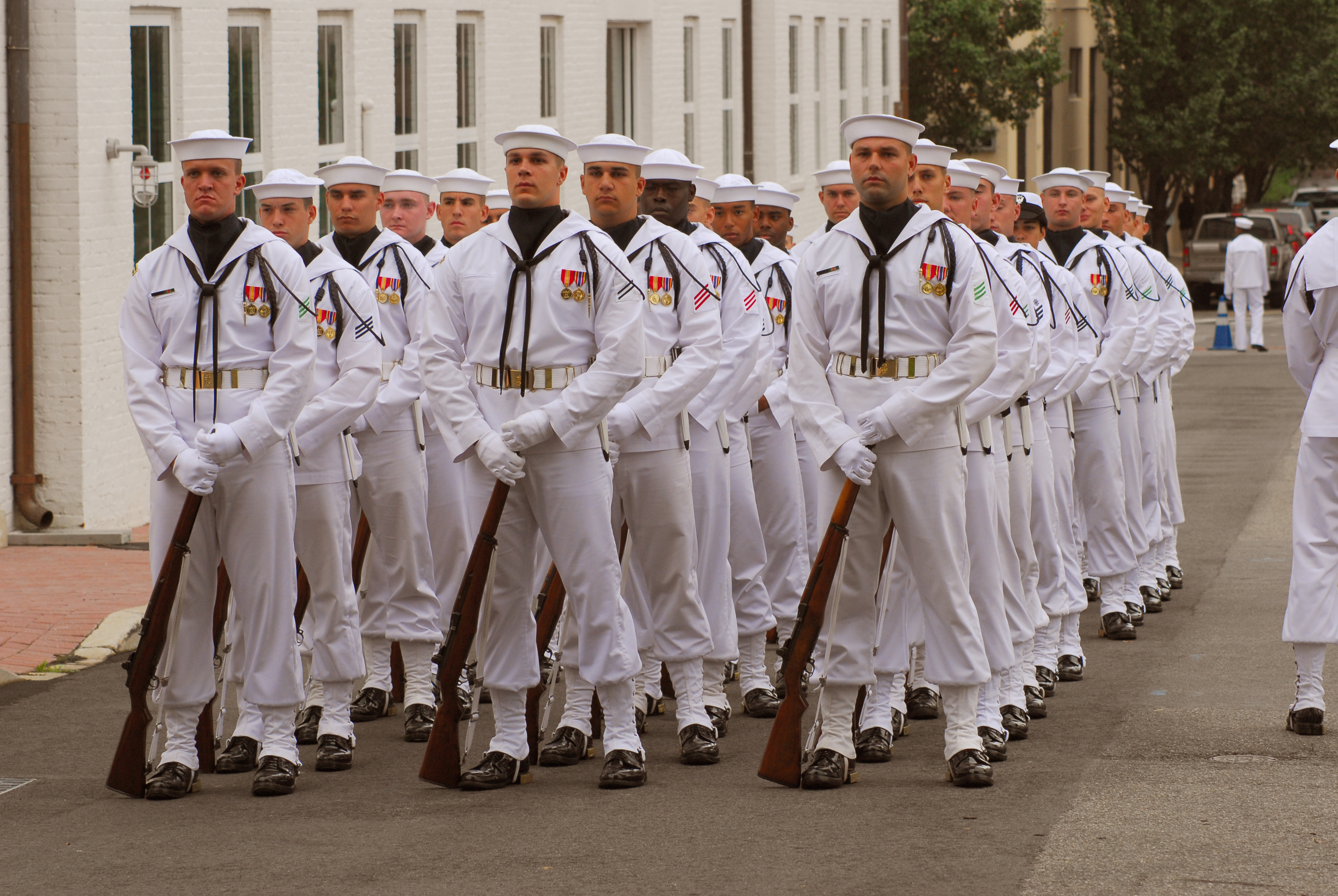 WASHINGTON NAVY YARD (Oct. 2, 2009) Members of the U.S. Navy Ceremonial Guard stand at parade rest before the start of the retirement ceremony for Rear Adm. Jon W. Bayless Jr. and Rear Adm. Edward "Sonny" Masso. (U.S. Navy photo by Mass Communication Specialist 1st Class Cynthia Z. De Leon/Released)